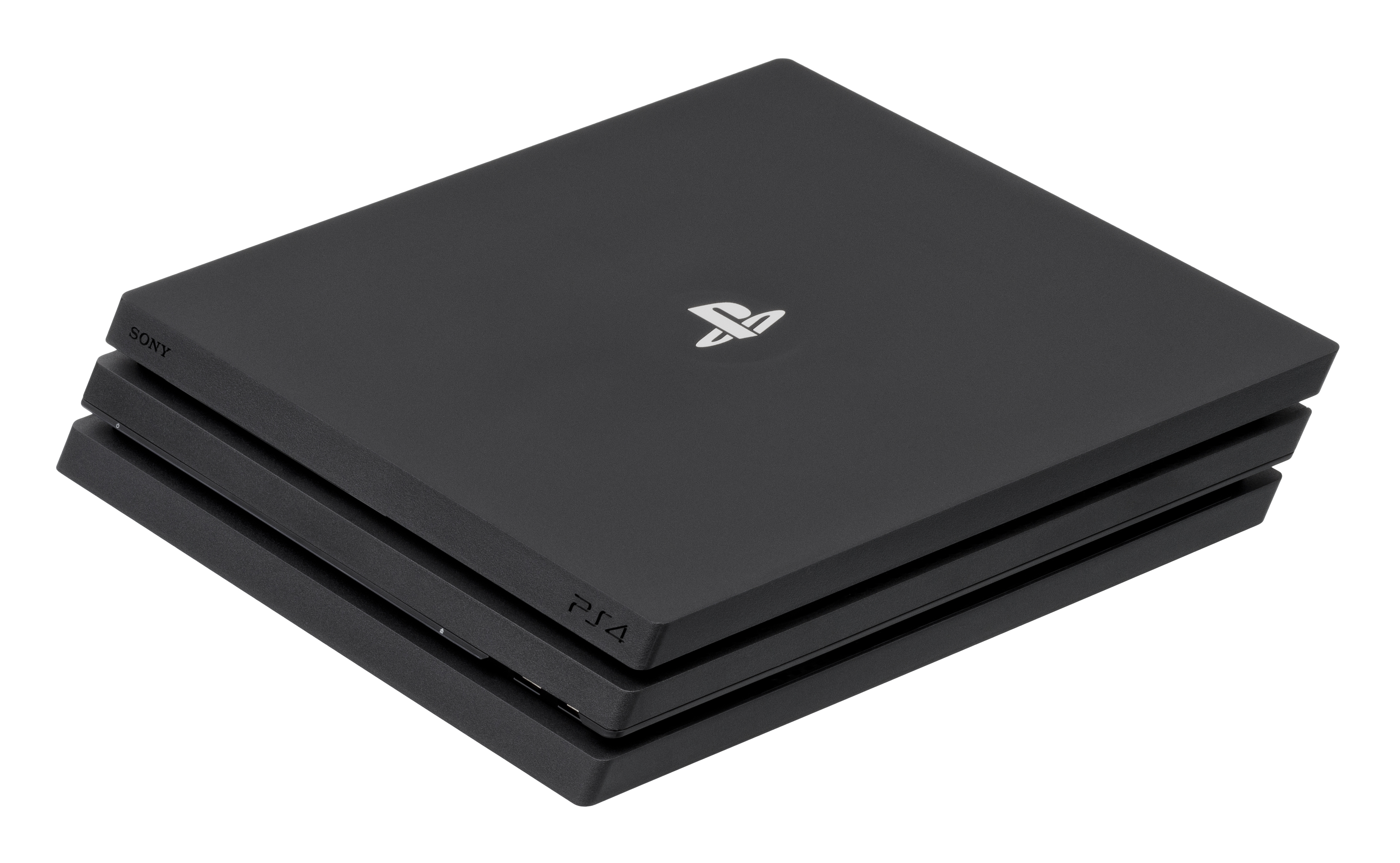 The PlayStation 4 Pro video game console. Produced by Sony and launched worldwide in November 2016, the Pro is an enhanced model of the original PlayStation 4 that offers extra capabilities through an upgraded GPU, faster RAM and a CPU with a higher clock speed.